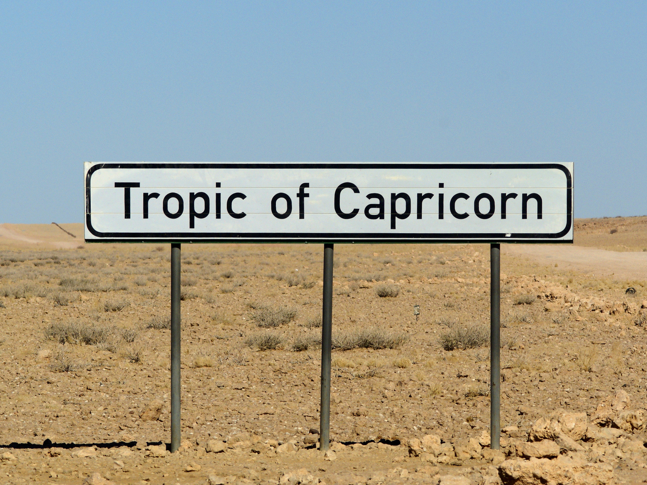 Tropic of Capricorn sign close to the ... well, Tropic of Capricorn in Namibia.